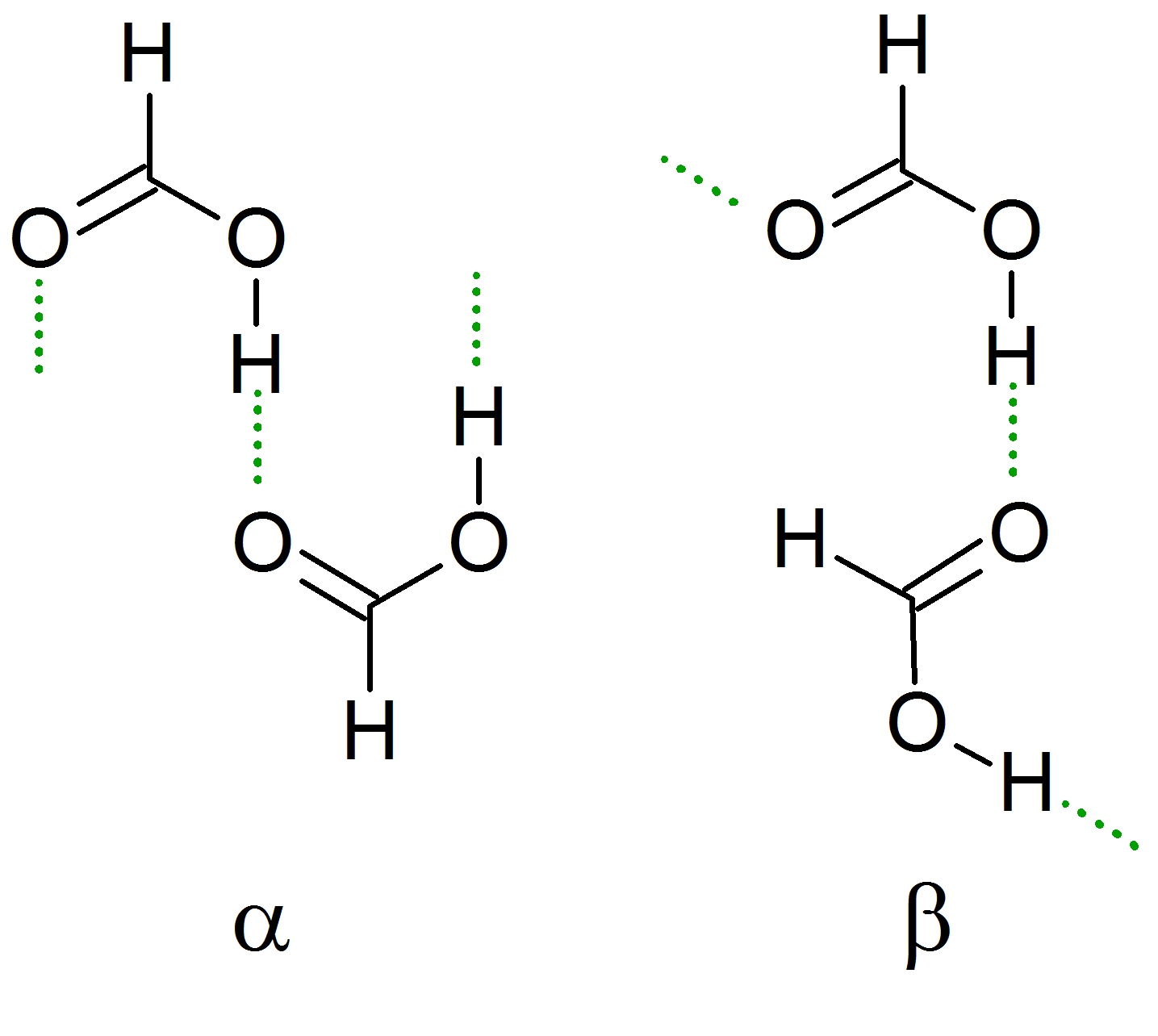 Left: Portion of the chain in an alpha-type formic acid crystal. Right: Portion of the chain in an beta-type formic acid crystal. The hydrogen bonds in green.